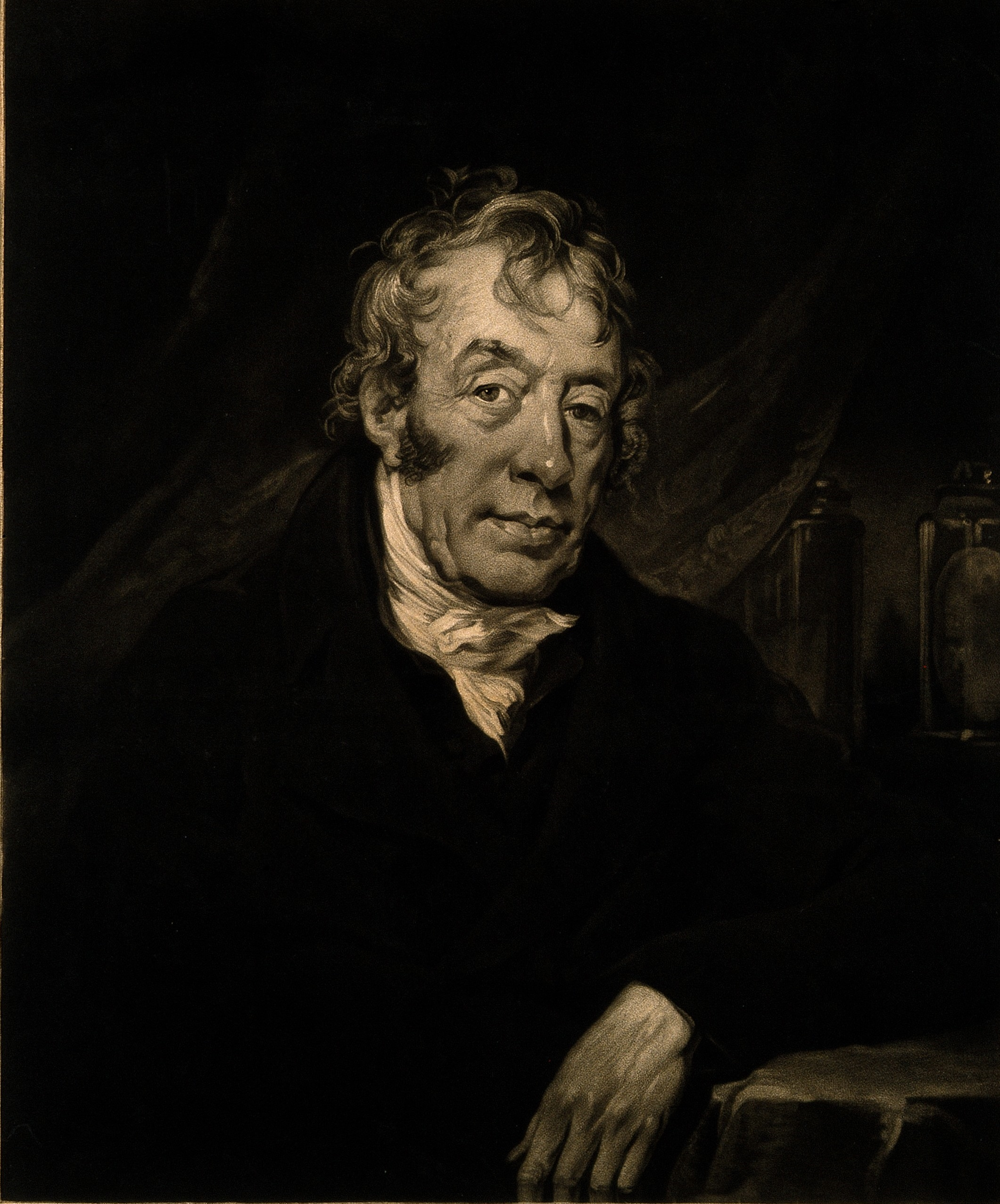 Charles White. Mezzotint by W. Ward after J. Allen.